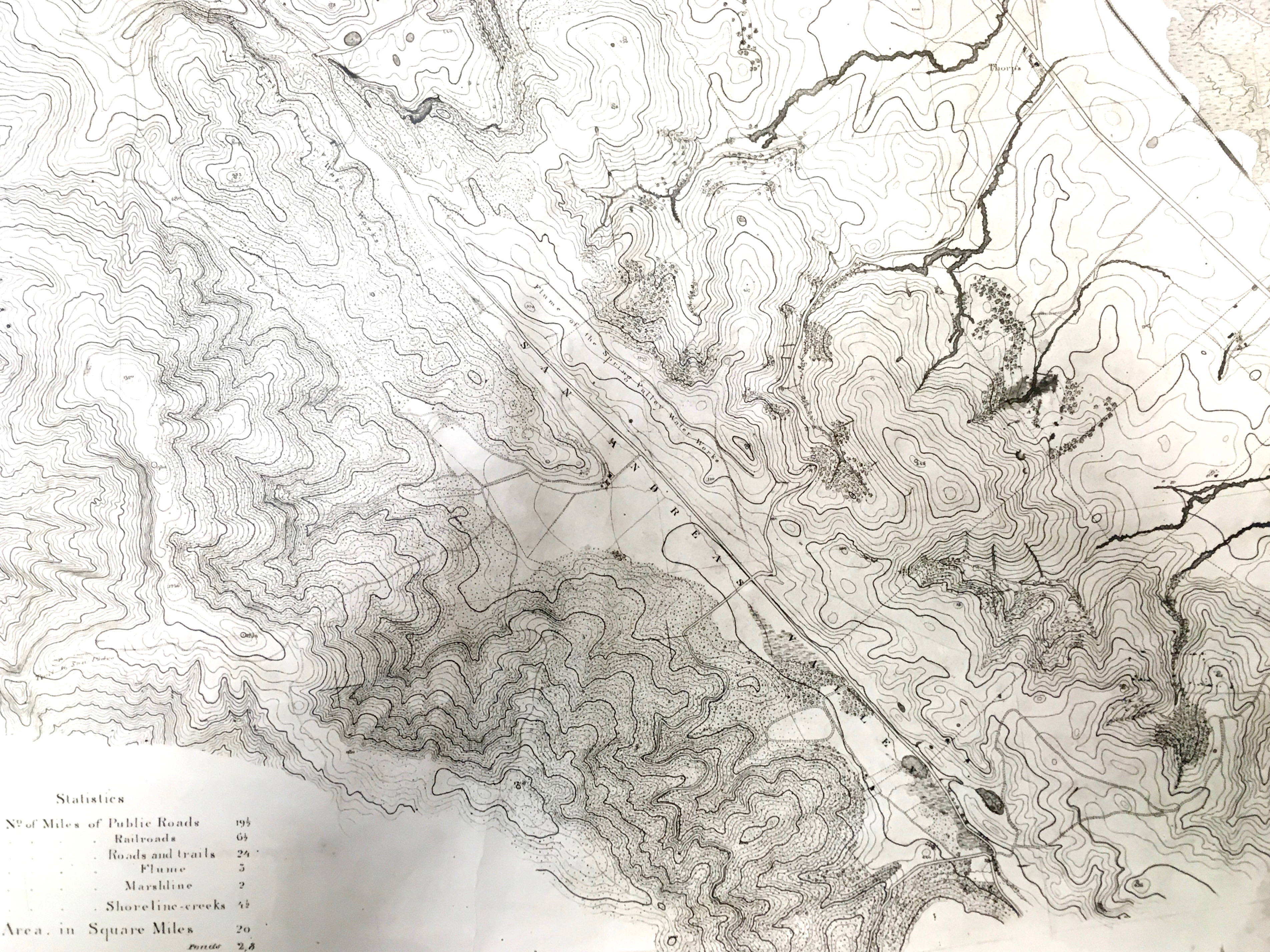 San Andreas Valley 1867 before filled with water for a reservoir